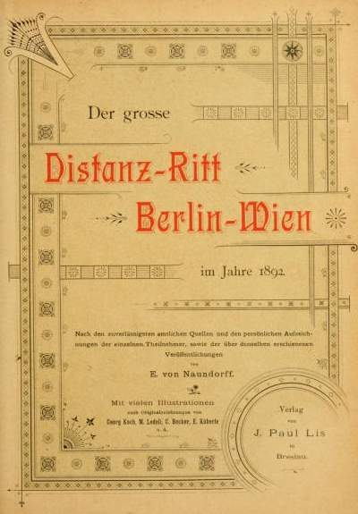 book inlay, old book, Distanzritt Berlin-Wien, 1892